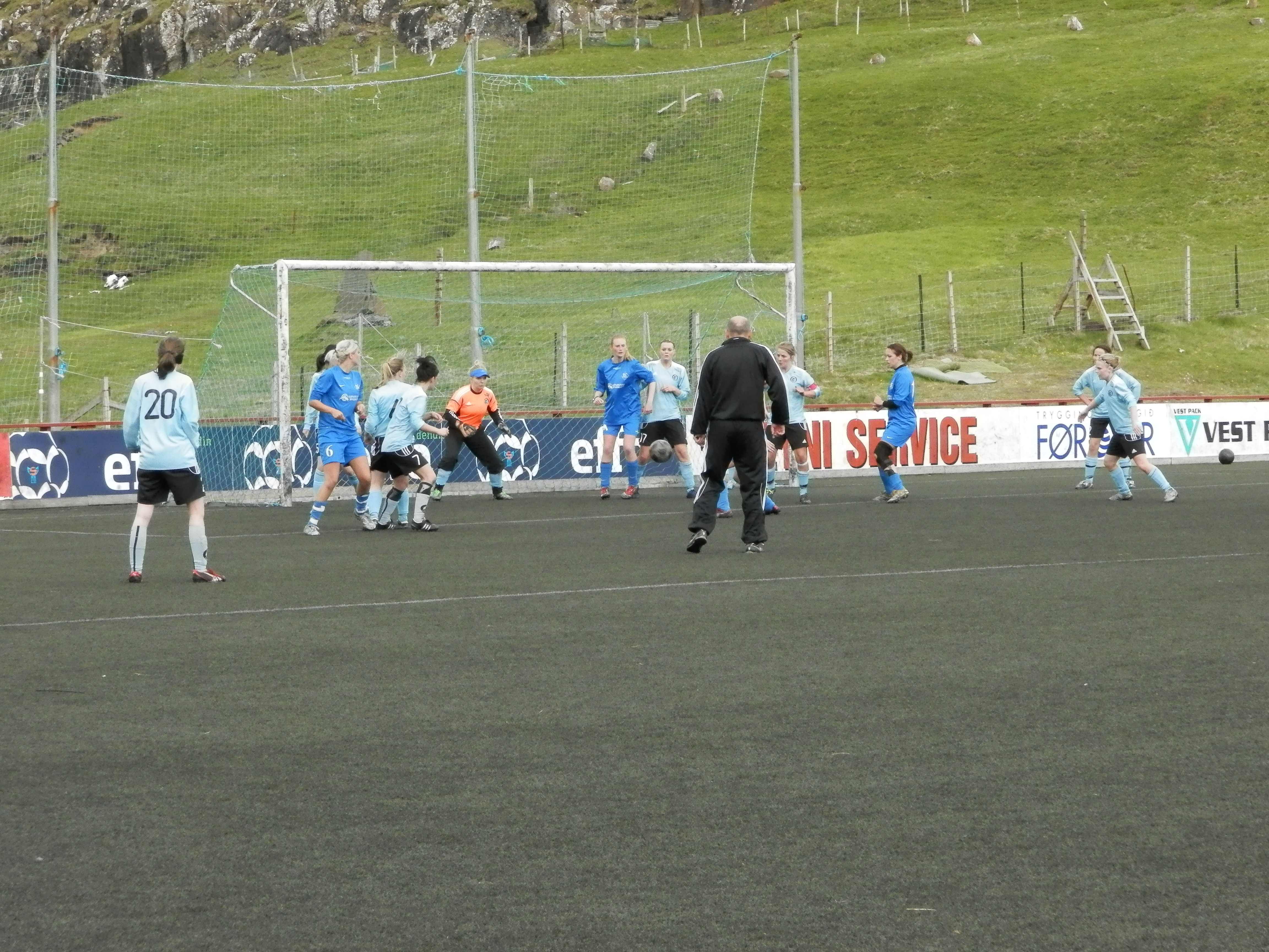 Football match in the Faroe Islands in the women's best division 1. deild. The match was played on 1 July 2012, it was between FC Suðuroy and Víkingur Gøta. FC Suðuroy won the match 2-1.